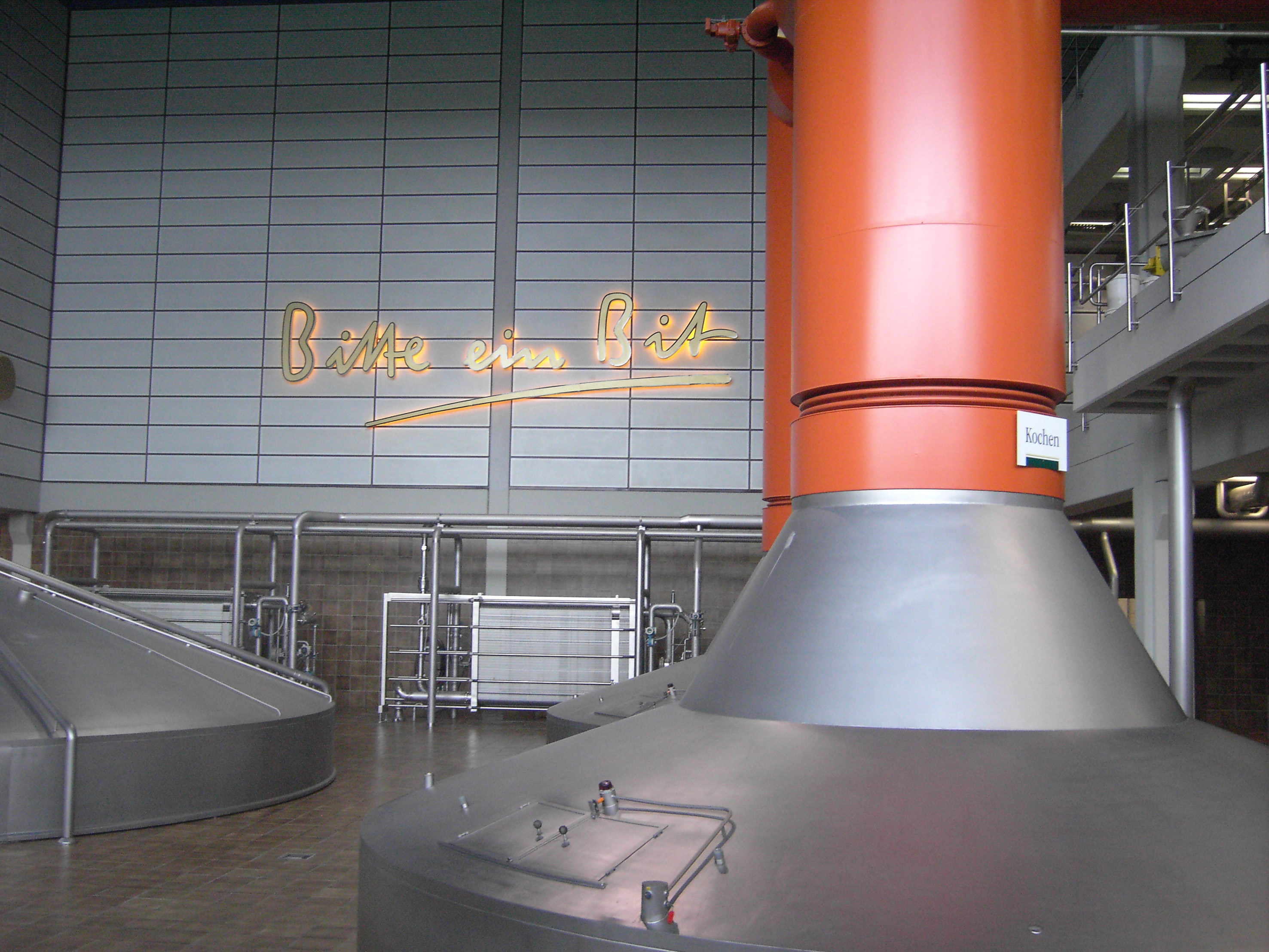 Bitburg - new brewery in 2007